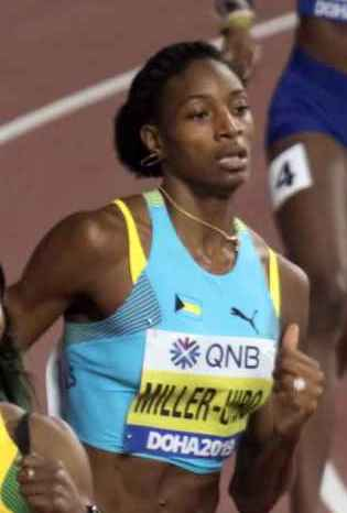 DOH50168 400m women semifinal miller